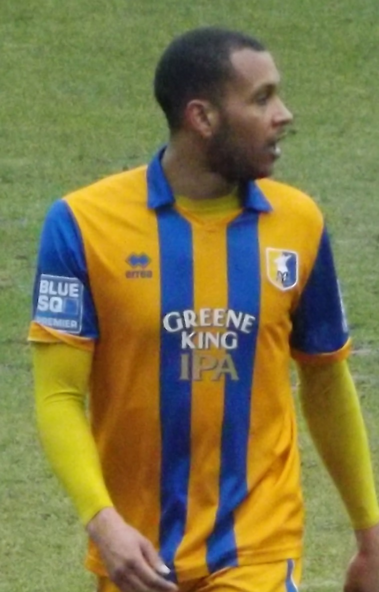 Matt Green. Image cropped from original at flickr.